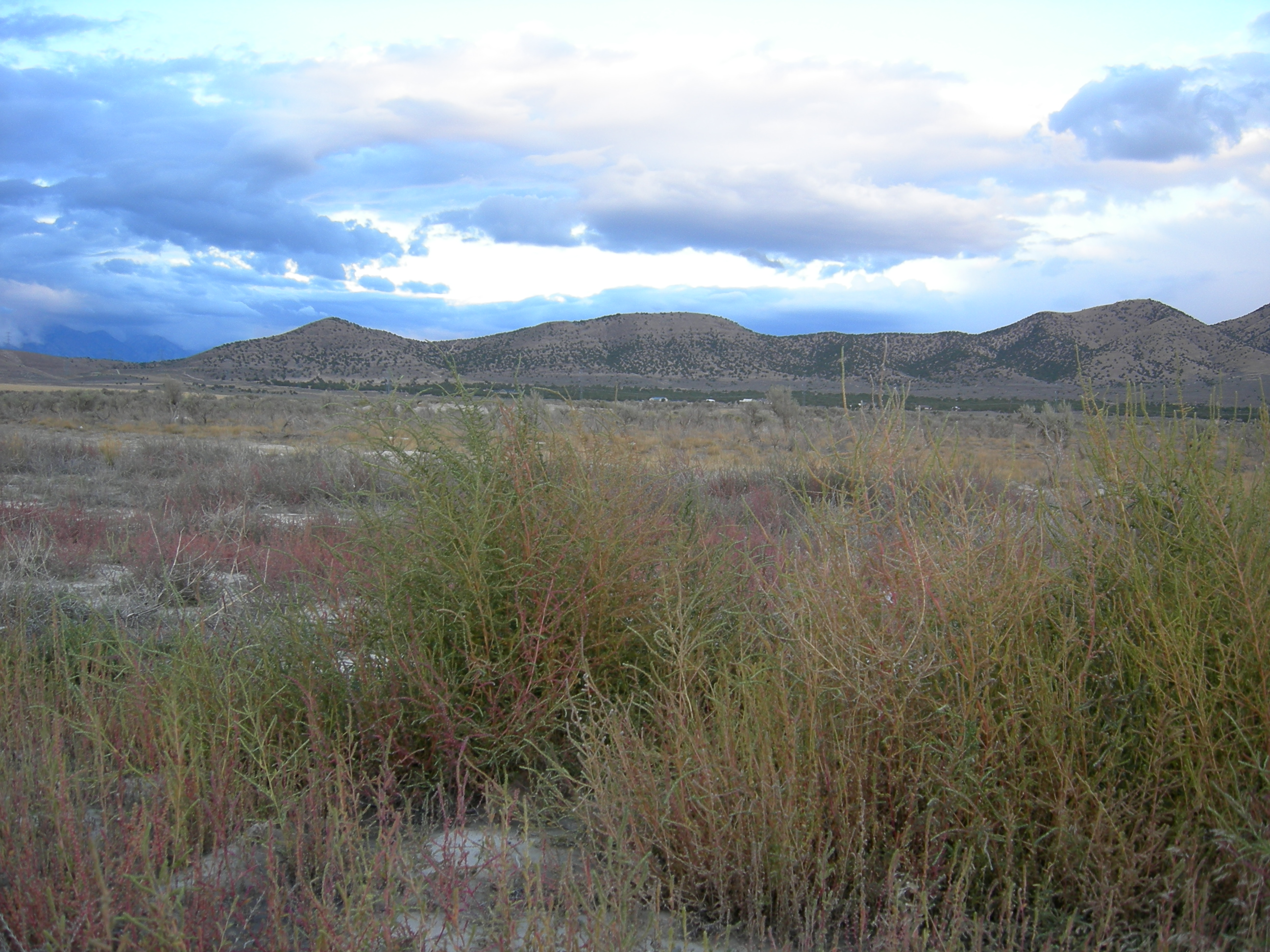 Undeveloped land near the City Center in Eagle Mountain. Not uncommon to see antelope grazing, rabbits hopping across the road, mice scurrying, or foxes lurking in the brush.